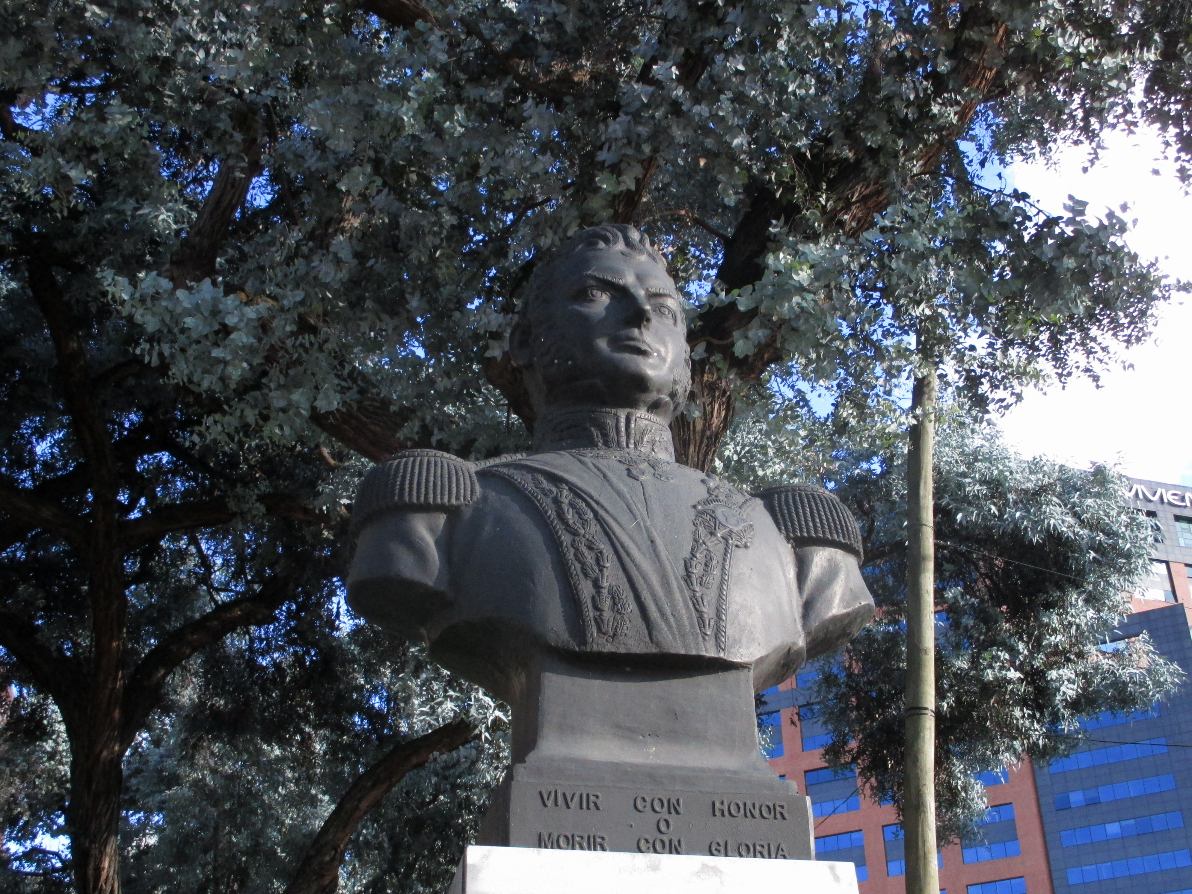 Busto de Bernardo O'Higgins en la avenida Chile con carrera Novena en Bogotá.